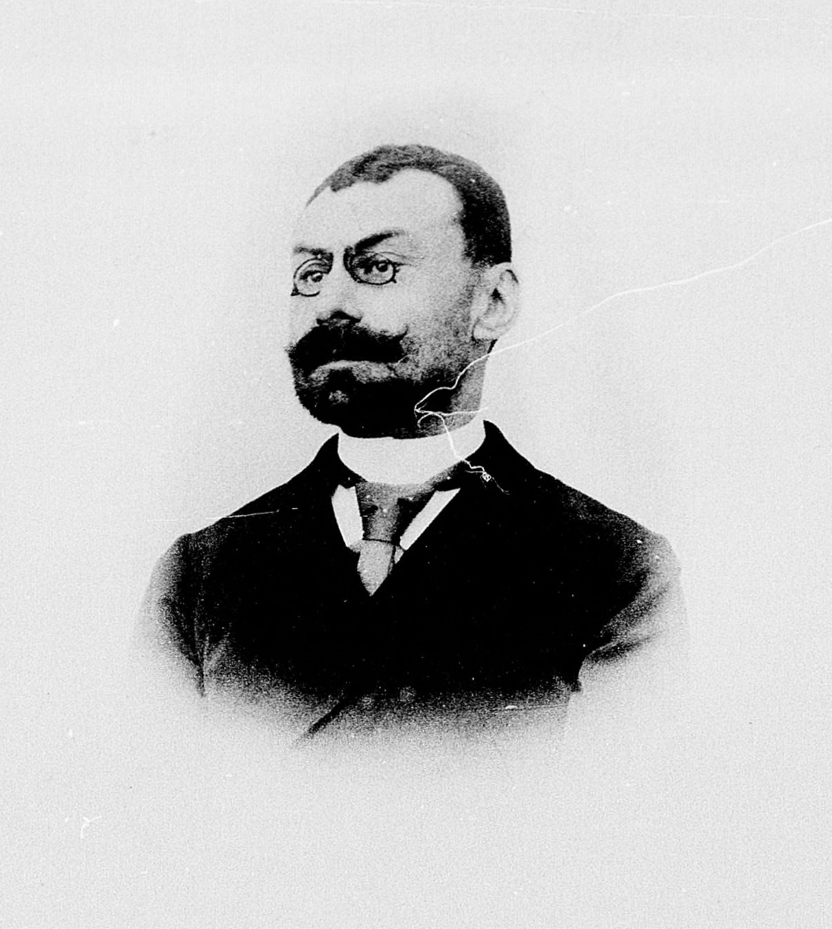 Victor Emile Marie Joseph Collin de Plancy (1853-1924) , career French diplomat, ca. 1900